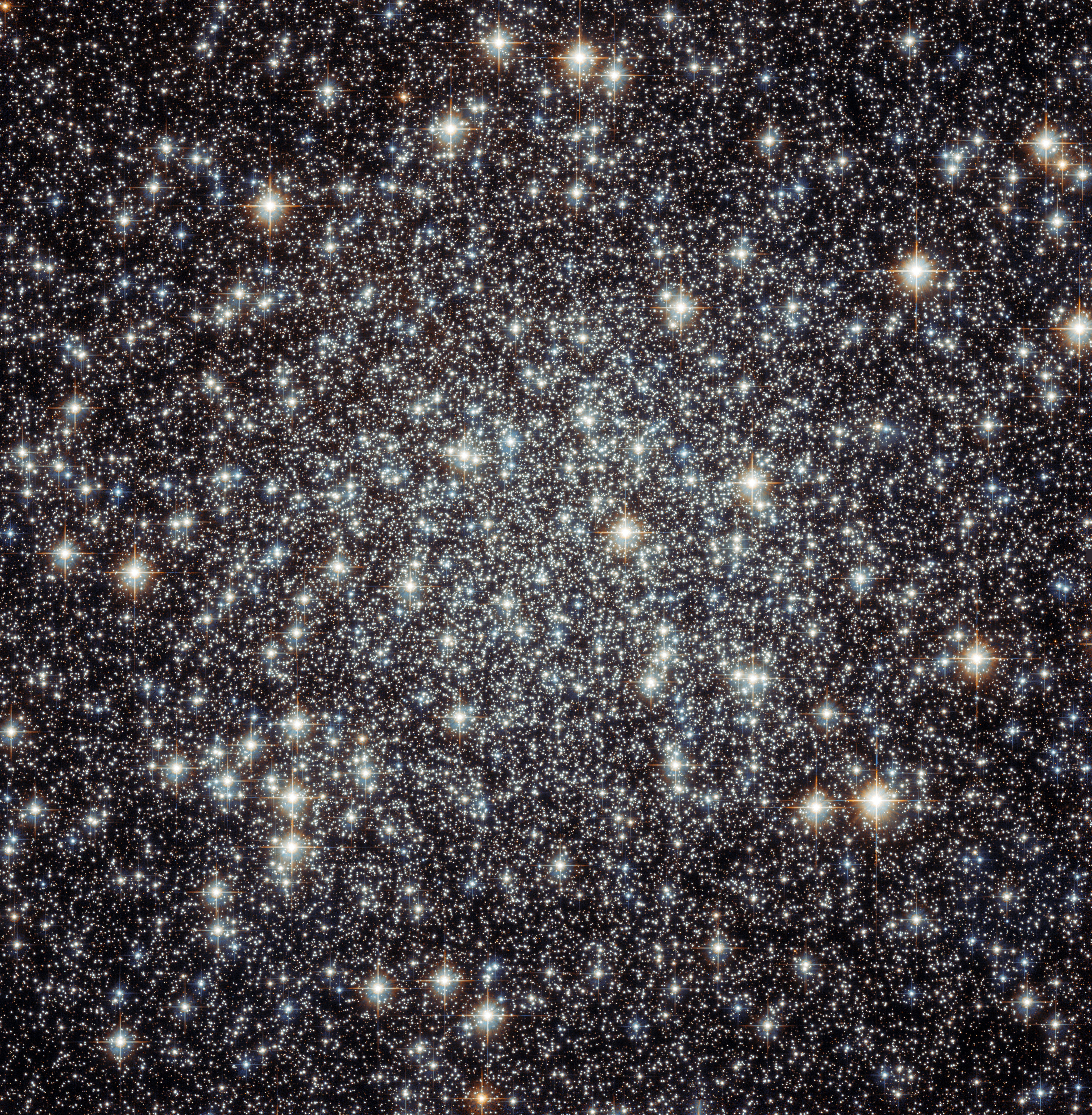 This image shows the centre of the globular cluster Messier 22, also known as M22, as observed by the NASA/ESA Hubble Space Telescope. Globular clusters are spherical collections of densely packed stars, relics of the early years of the Universe, with ages of typically 12 to 13 billion years. This is very old considering that the Universe is only 13.8 billion years old. Messier 22 is one of about 150 globular clusters in the Milky Way and at just 10 000 light-years away it is also one of the closest to Earth. It was discovered in 1665 by Abraham Ihle, making it one of the first globulars ever to be discovered. This is not so surprising as it is one of the brightest globular clusters visible from the northern hemisphere, located in the constellation of Sagittarius, close to the Galactic Bulge — the dense mass of stars at the centre of the Milky Way. The cluster has a diameter of about 70 light-years and, when looking from Earth, appears to take up a patch of sky the size of the full Moon. Despite its relative proximity to us, the light from the stars in the cluster is not as bright as it should be as it is dimmed by dust and gas located between us and the cluster. As they are leftovers from the early Universe, globular clusters are popular study objects for astronomers. M22 in particular has fascinating additional features: six planet-sized objects that are not orbiting a star have been detected in the cluster, it seems to host two black holes, and the cluster is one of only three ever found to host a planetary nebula — a short-lived gaseous shells ejected by massive stars at the ends of their lives.